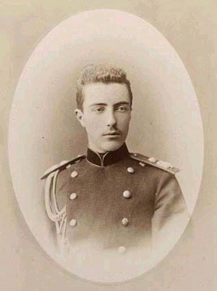 Grand Duke Vladimir Alexandrovich of Russia (1847-1909)